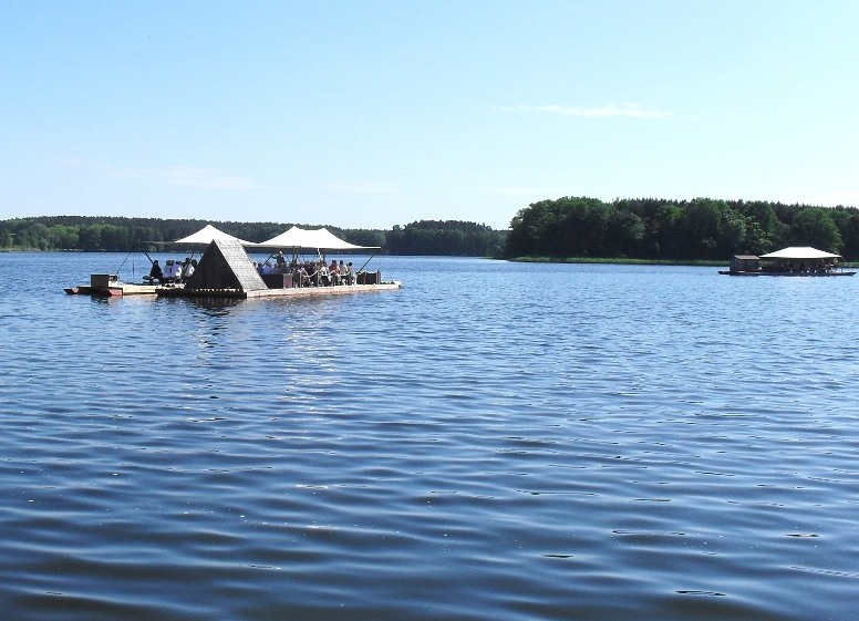 Raft carrying tourists to lake Oberpfuhl in Lychen, Germany